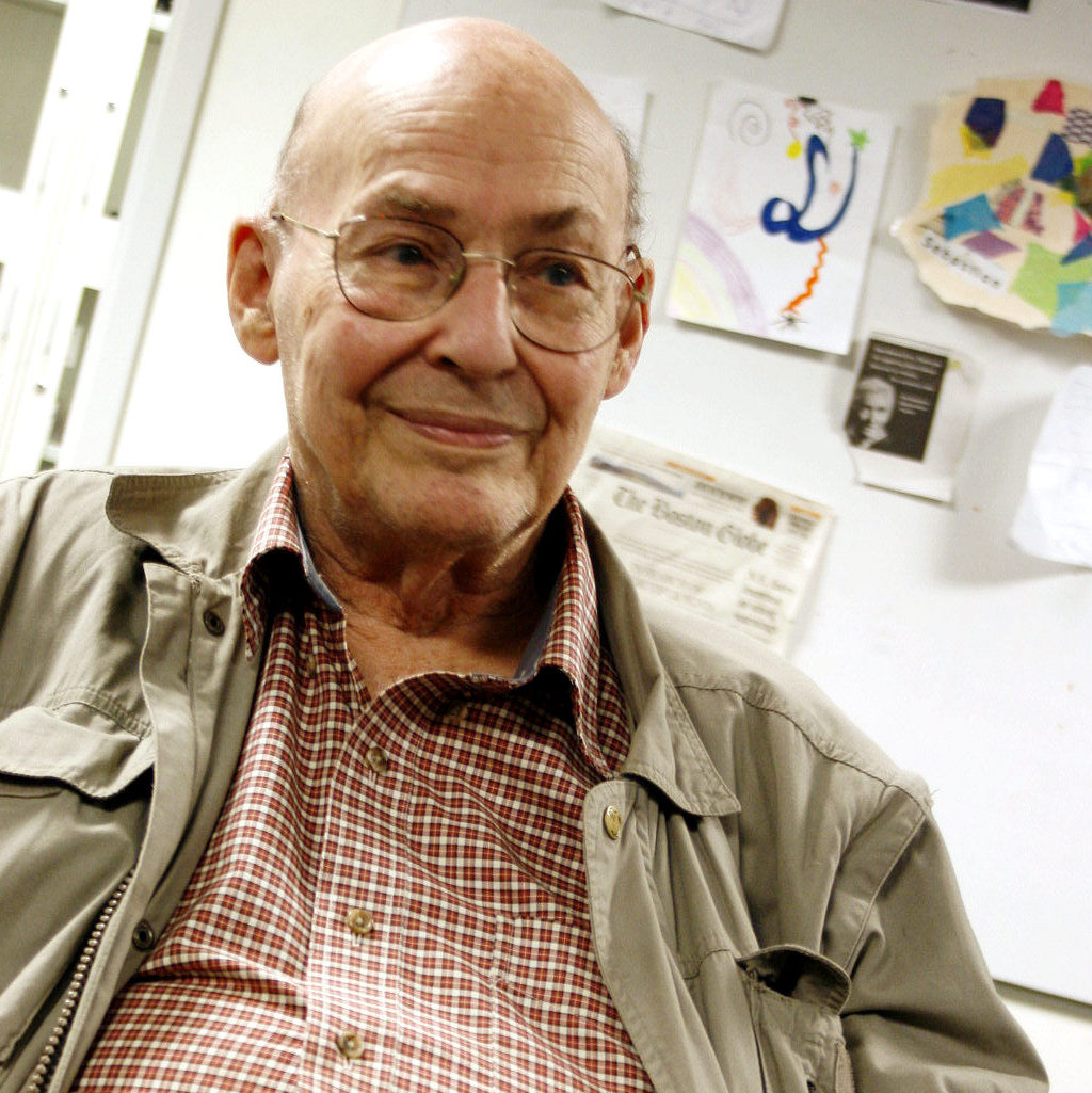 Marvin Minsky was visiting the OLPC offices and picked up a Firefox wrist band.